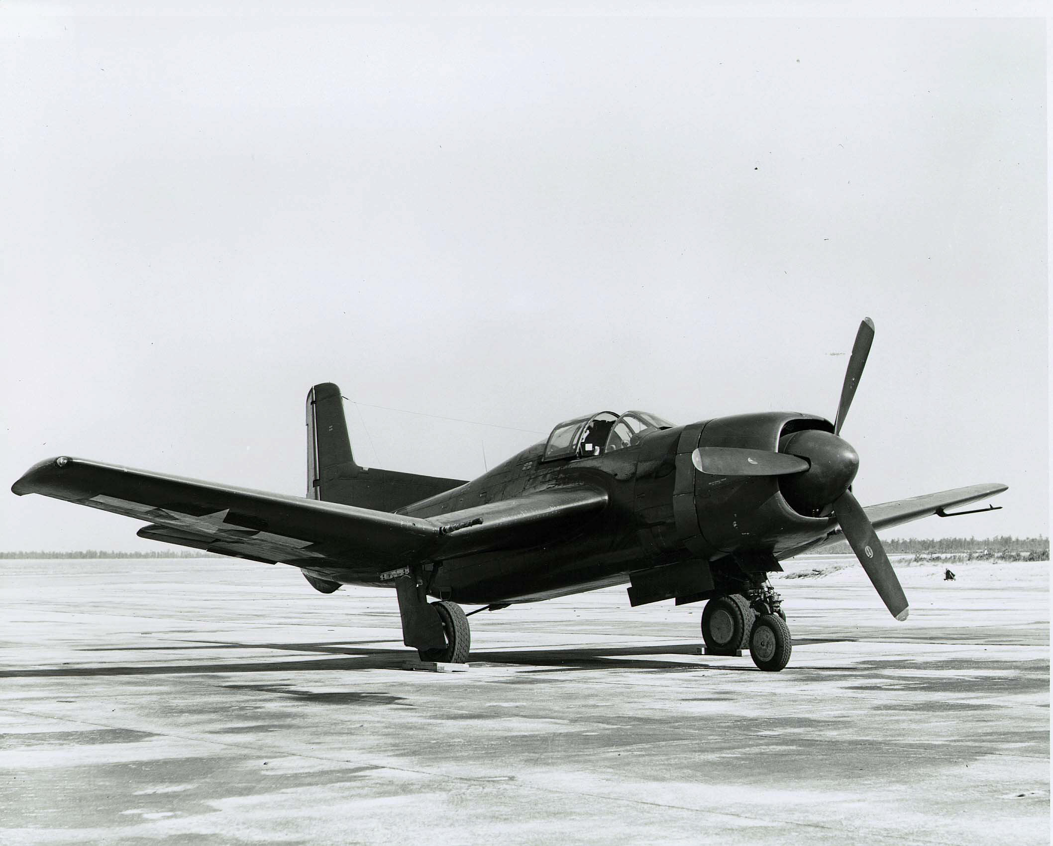 A Douglas BTD-1 Destroyer in 1945-1946.